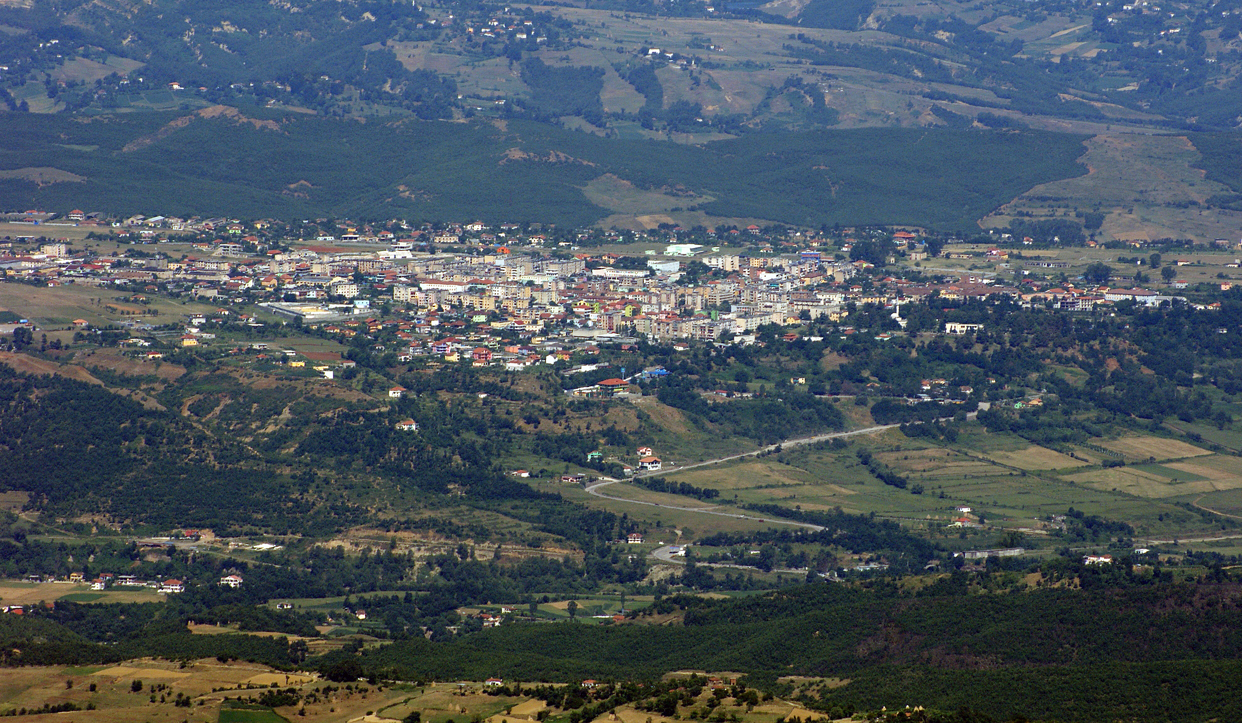 Burrel from Southeast